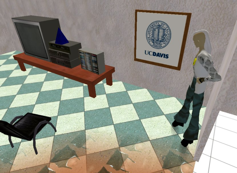 weird place! tries to reproduce what it's like to have Schizophrenia. Don't stay in there too long.